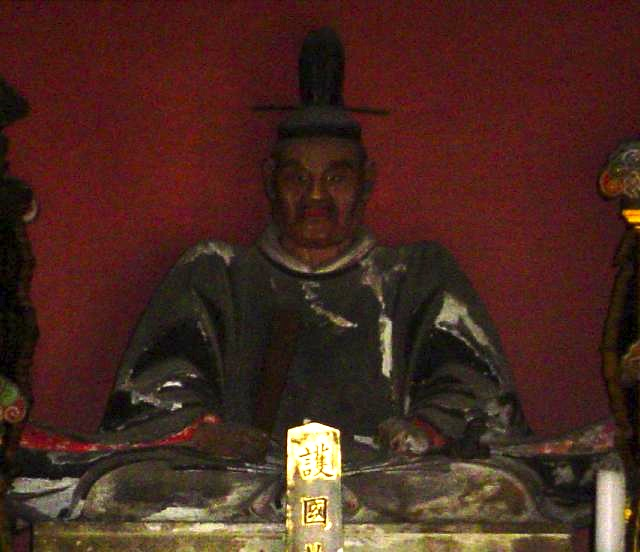 Wooden figure Yagyu Munenori